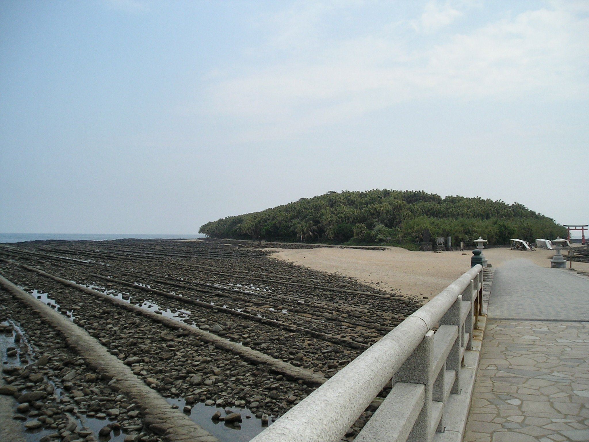 Aoshima seen from Yayoi bridge.